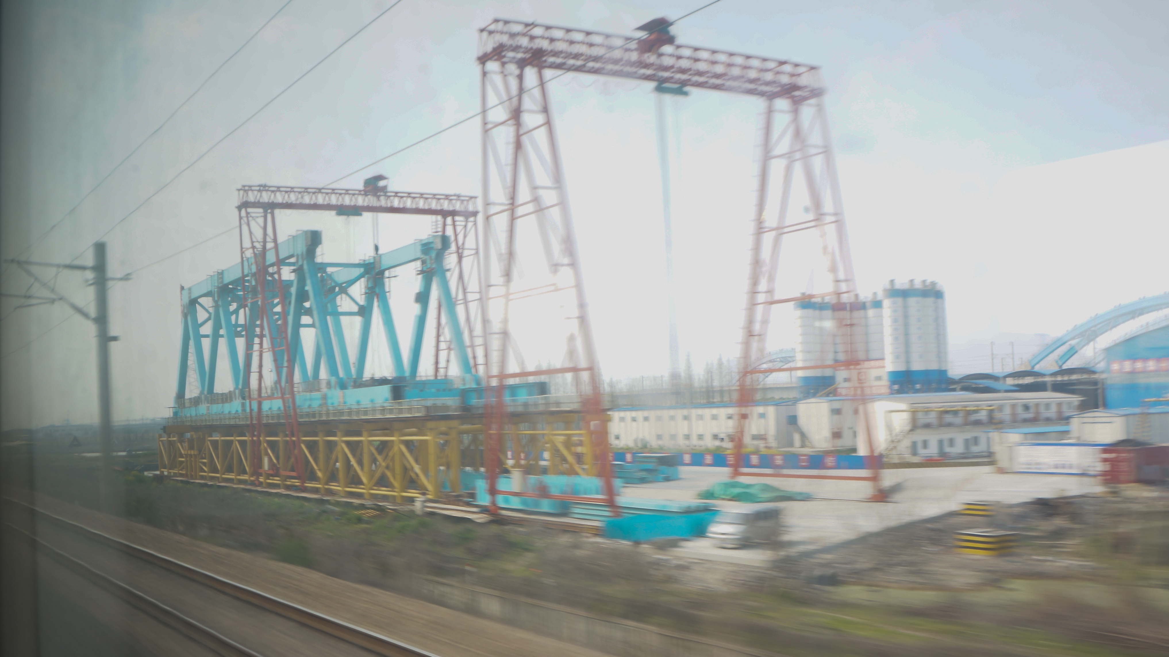 201603 Shanghai-Nantong Railway near Huangdu